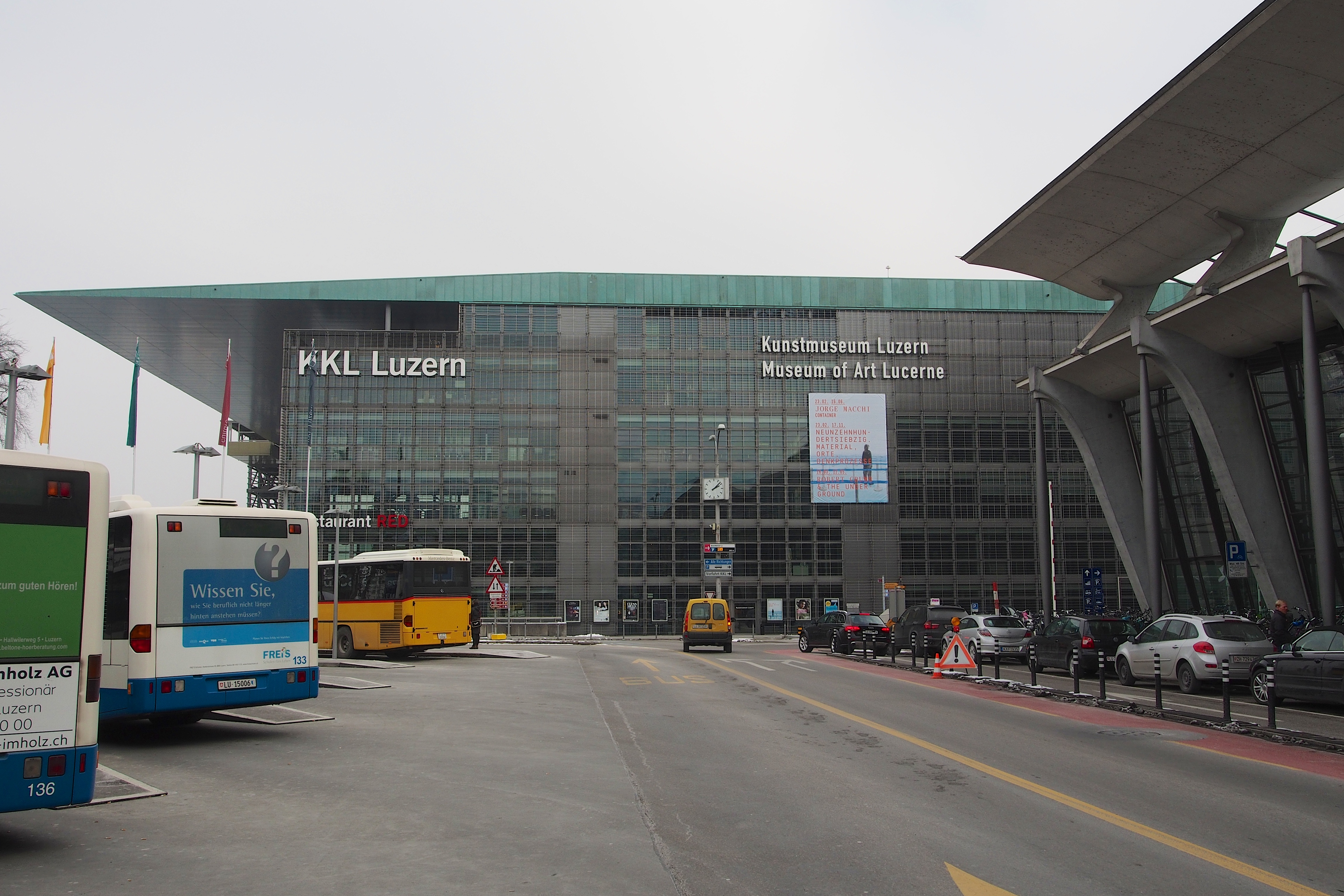 Luzern, Switzerland: Museum of Art Lucerne in the KKL (concert and congress centre), by Jean Nouvel